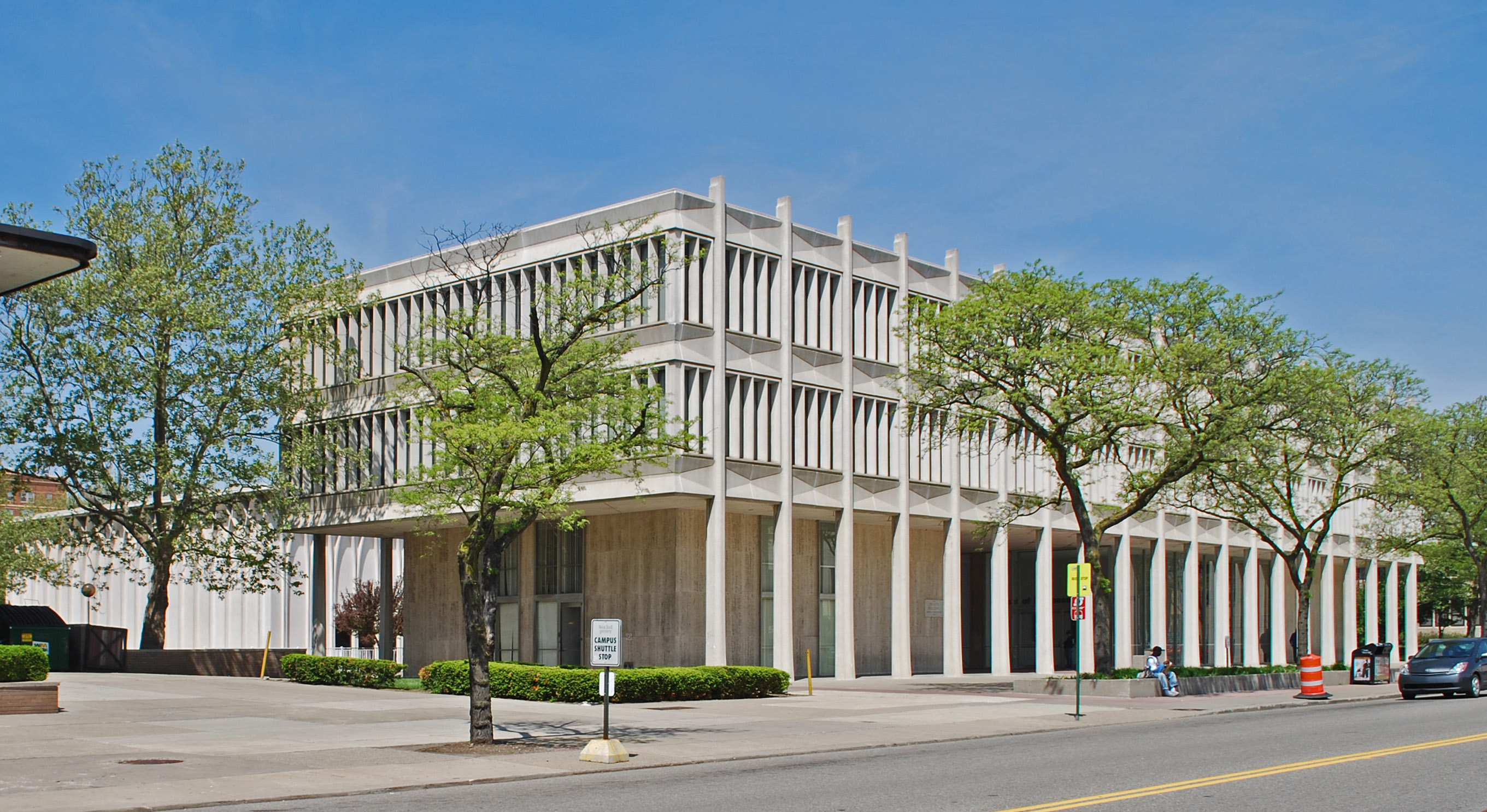 Prentis Building — on the Wayne State University campus, Midtown Detroit, Michigan. 1964 Modernist architecture by Minoru Yamasaki, in the Prentis Building and DeRoy Auditorium Complex. On the National Register of Historic Places.